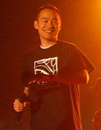 Jeff Huang at Taiwan Shin Hsin University 50th anniversary celebrations concert 黃立成 於台灣世新大學50周年校慶演唱會上